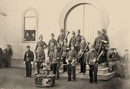 civil war photograph